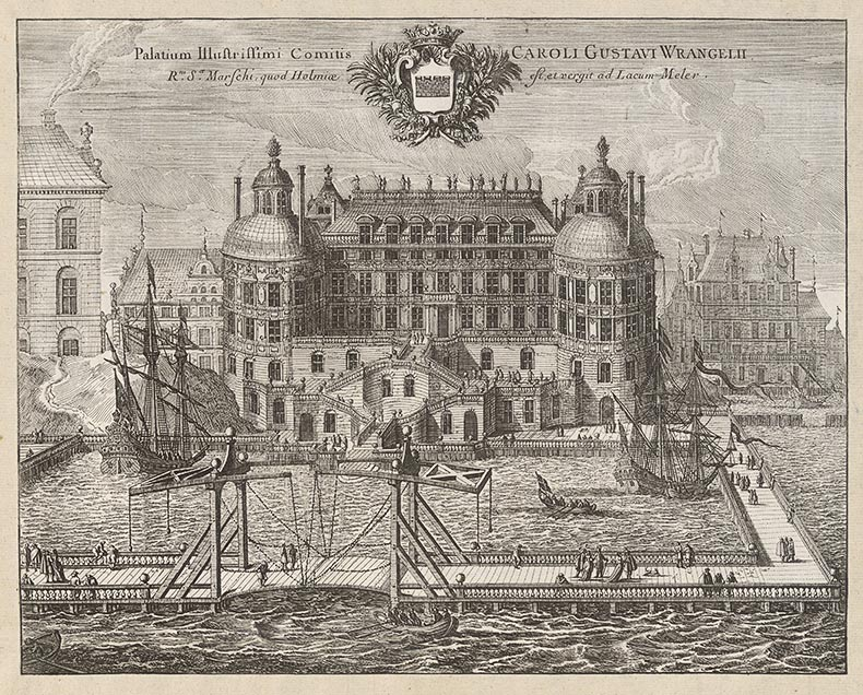 Copperplate of the Wrangel Palace at Riddarholmen in Gamla stan, Stockholm. Produced in the 1660s by Erik Dahlberg.